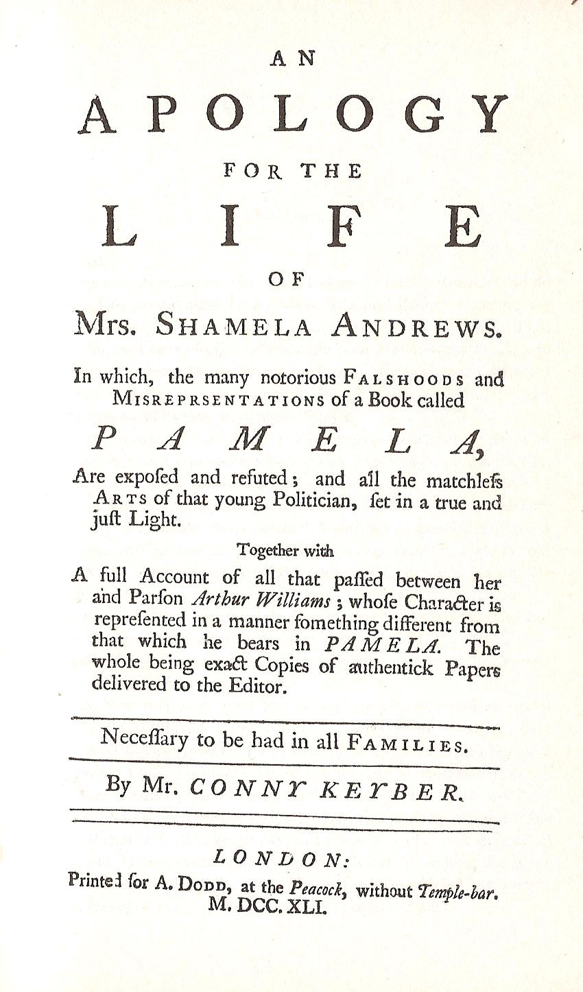 Title page of the first edition of Eliza Haywood's Shamela, 1741